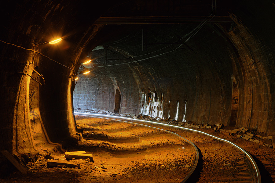 Inside of railway tunnel in Bielsko-Biała.